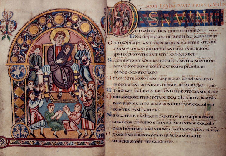 Vespasian Psalter, London, British Library, Cotton Vespasian A I. f 30v, 31r On the right is the beginning of Psalm 27 (in modern numbering) with an initial D(ominus) (Lord) with an image David with Jonathan, the earliest surviving English biblical example of an initial with a narrative scene.